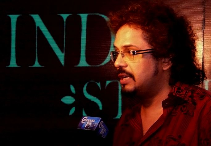 Bikram Ghosh